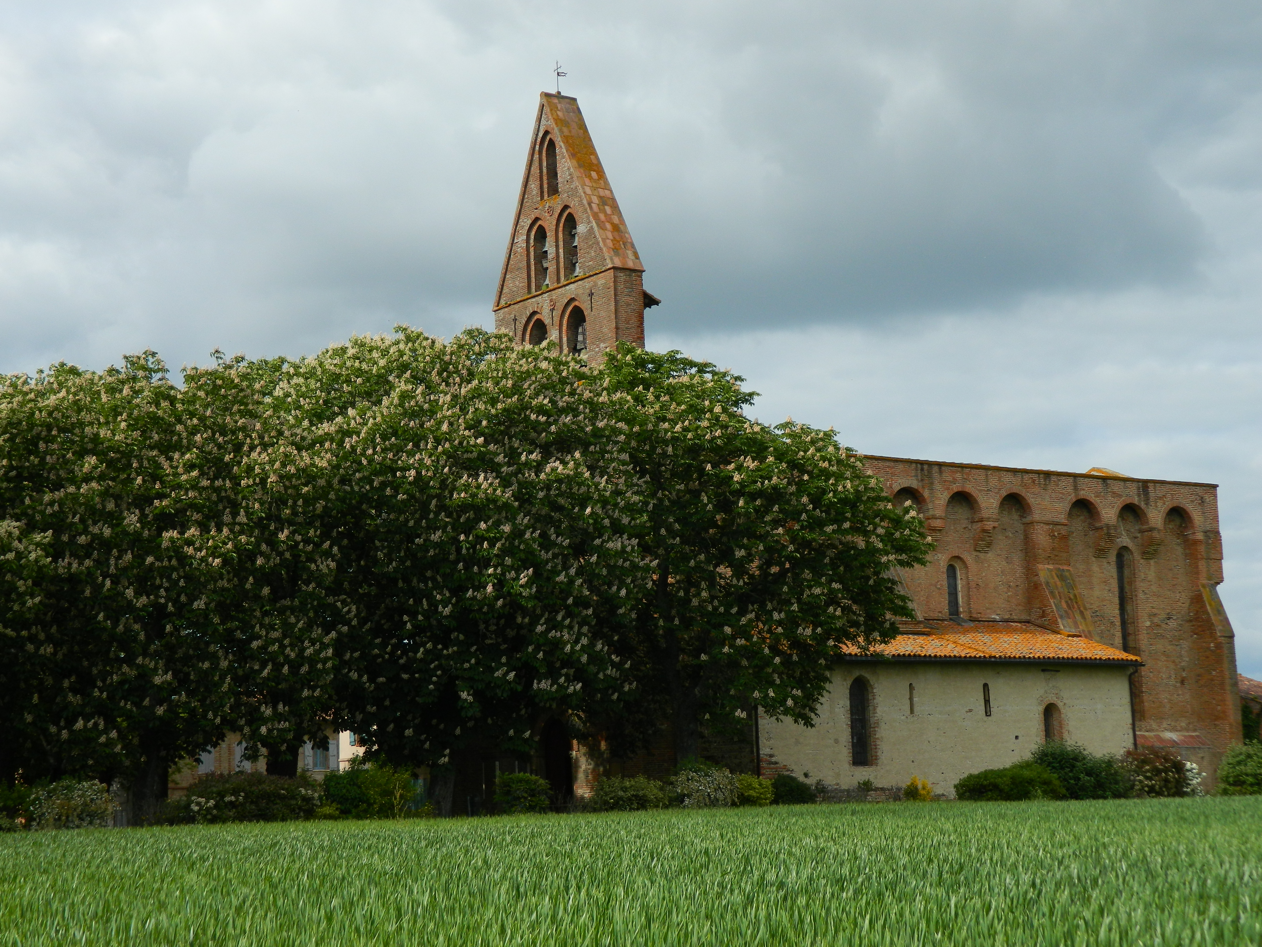 Church of Poucharramet